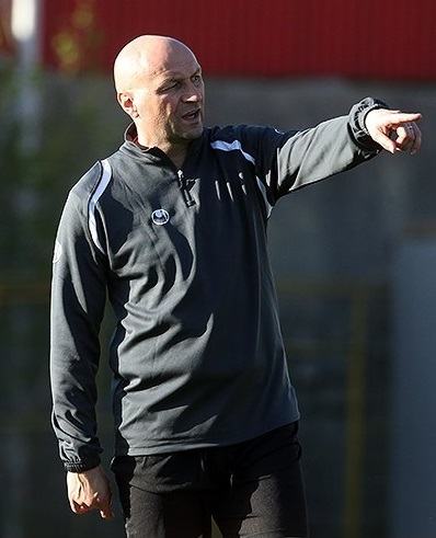 Andrej Panadić in Persepolis training